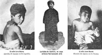 Children affected by famous La Sabana indian attack in 1899. Child in the left has a wound in the back, child in the right has a wound in the forehead, both of them caused by spears.